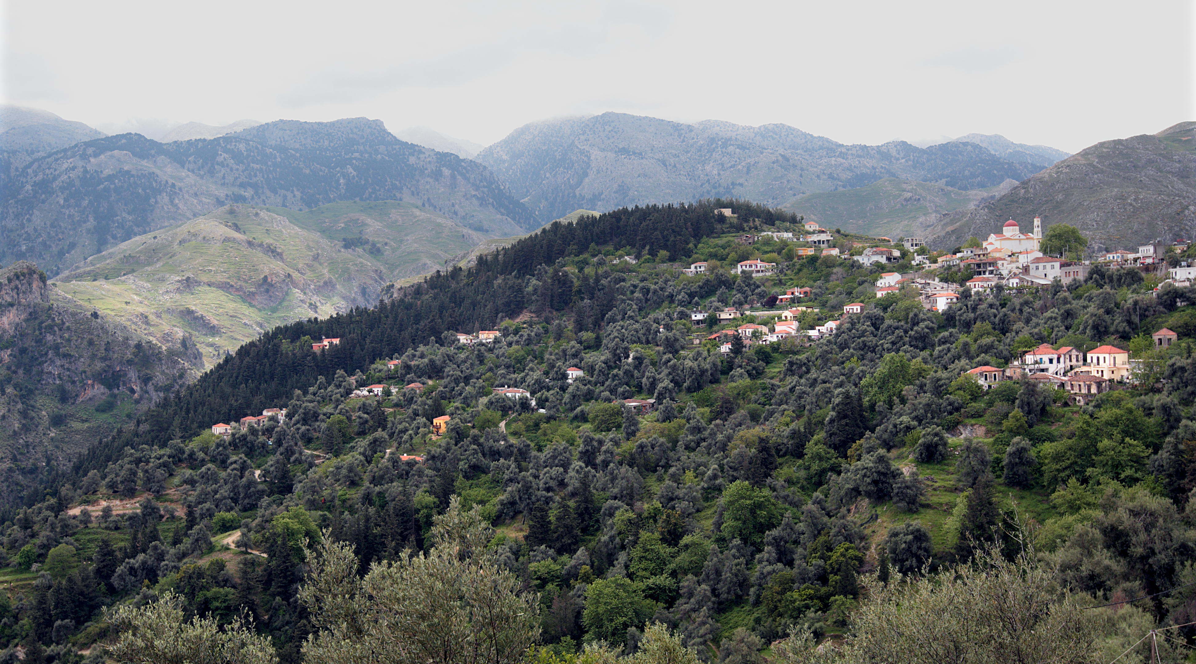 Lakkoi, (Krete)